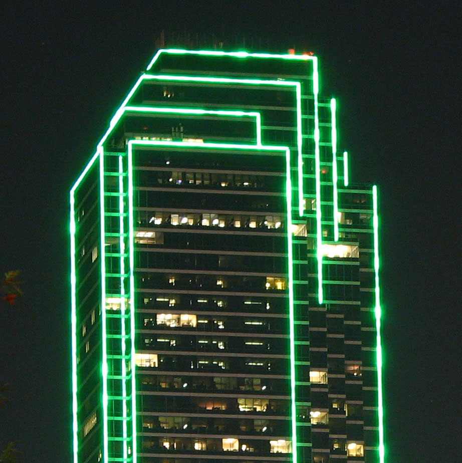 Bank of America Plaza, Dallas, Texas; at night